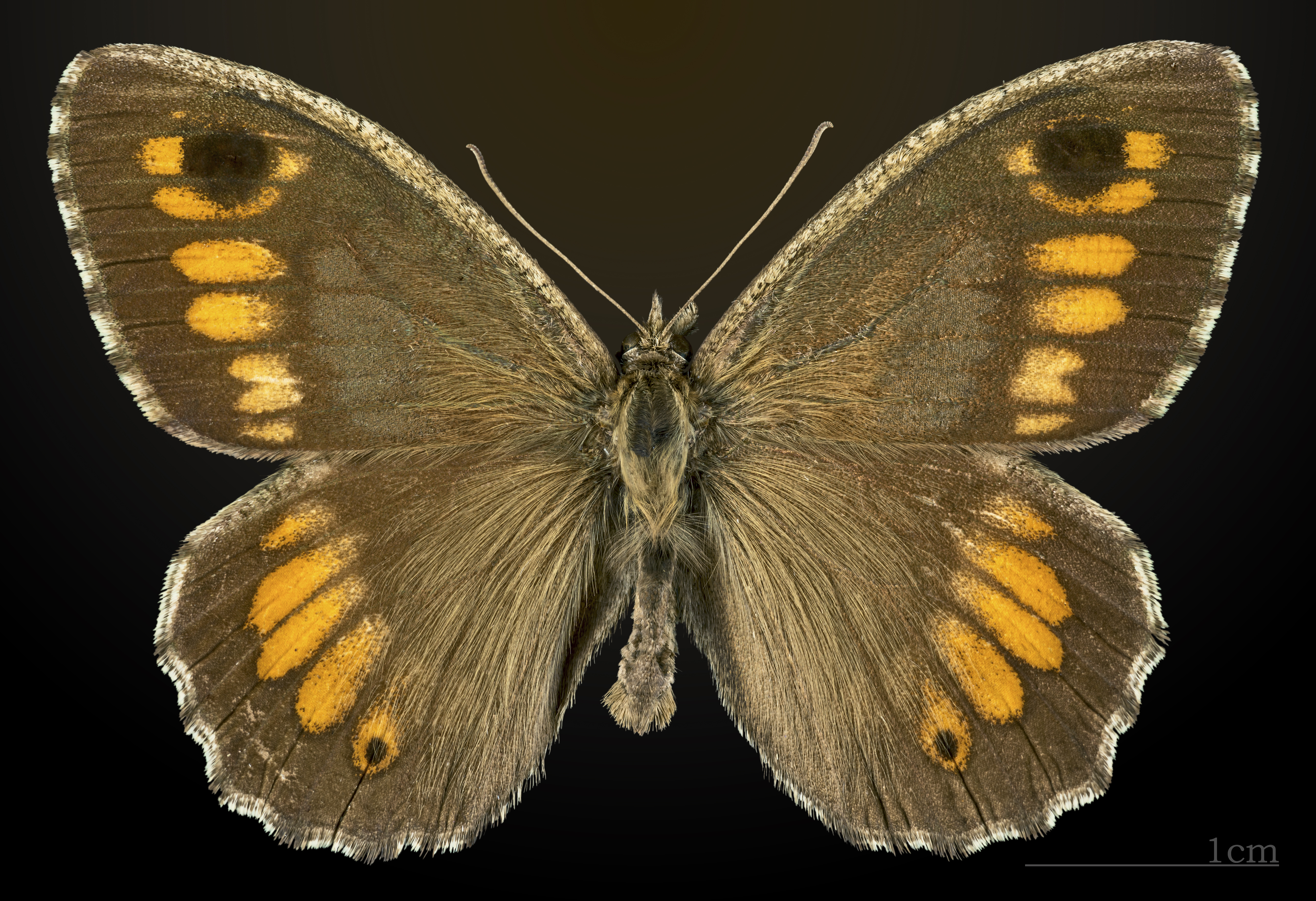 False Grayling - Dorsal side Locality: Villegailhenc, Aude, France